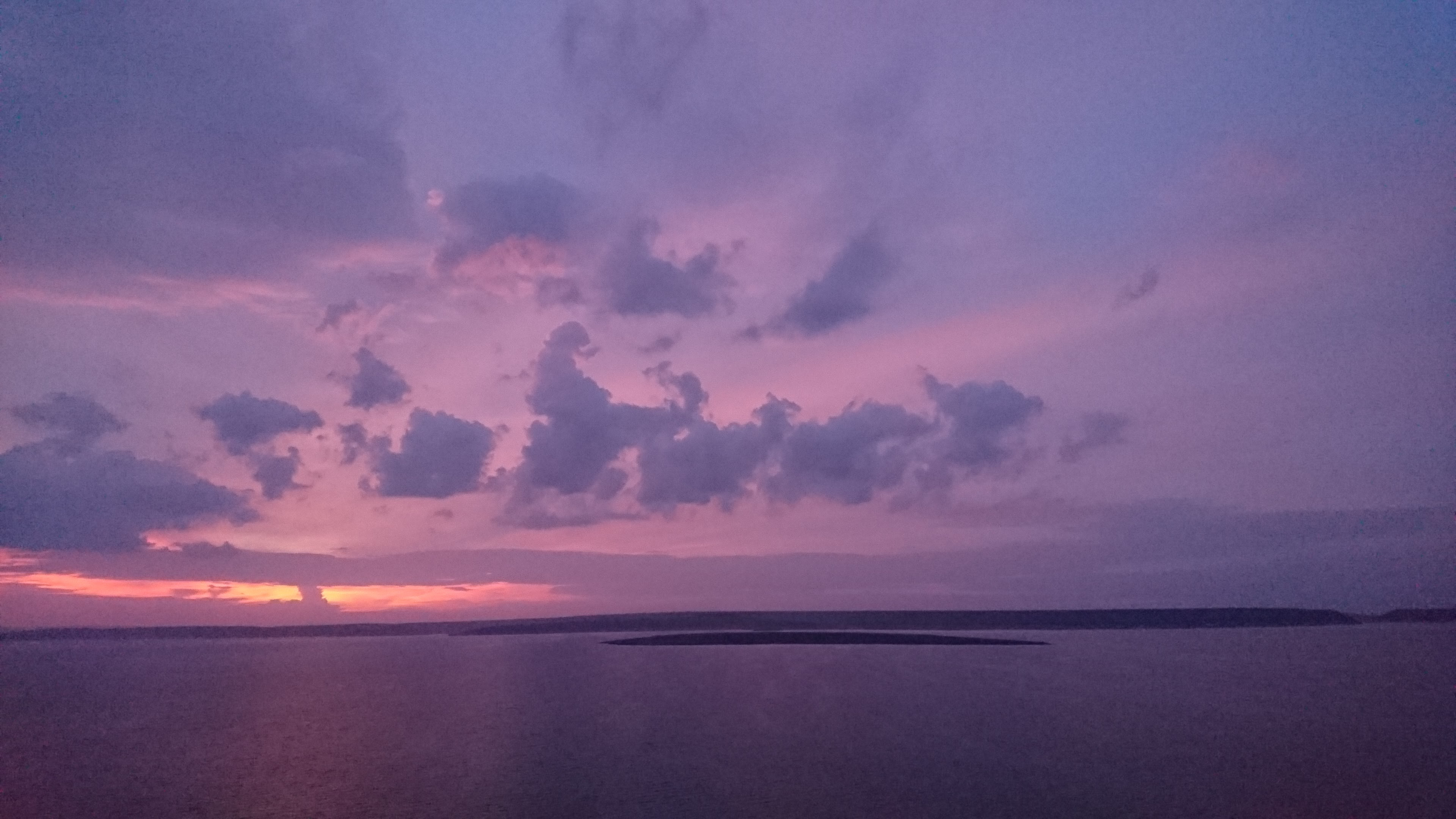 one evening at Nagarjuna Sagar